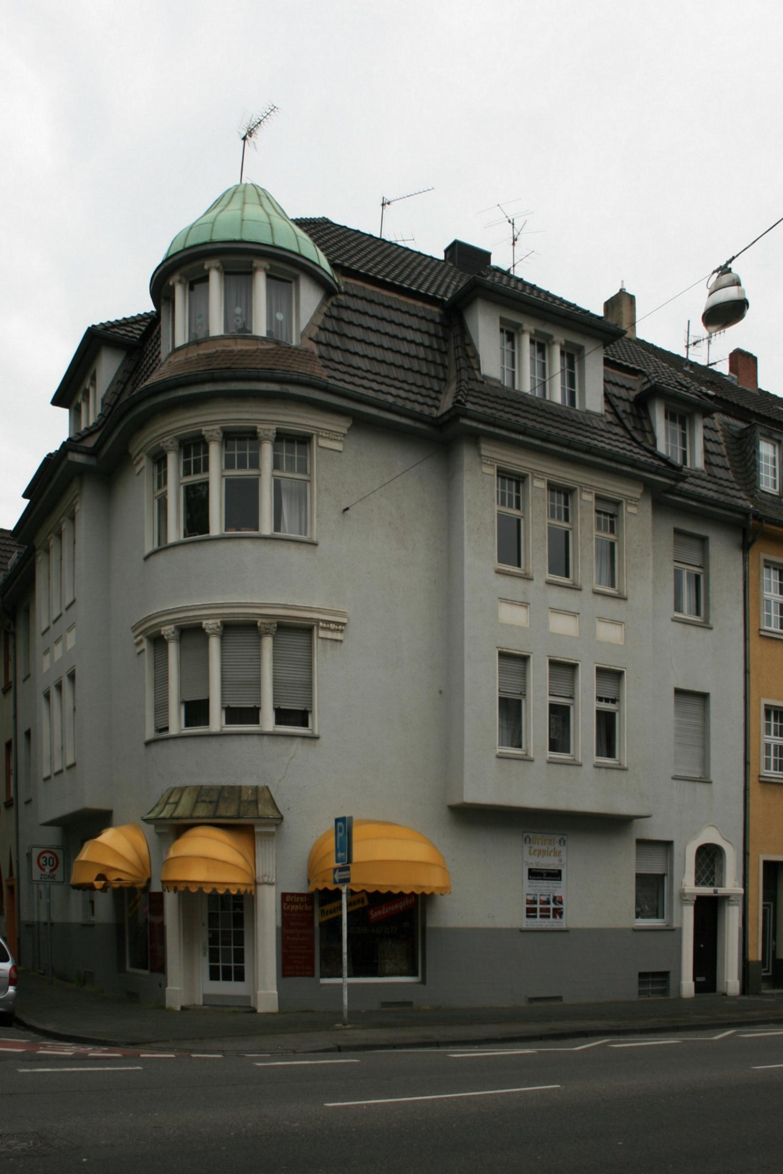 Cultural heritage monument No. V 015 in Mönchengladbach